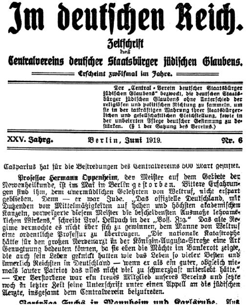 Obituary of Hermann Oppenheim, Centralvereins deutscher Staatsbürger jüdischen Glaubens, Berlin 6: 296–297, June 1919